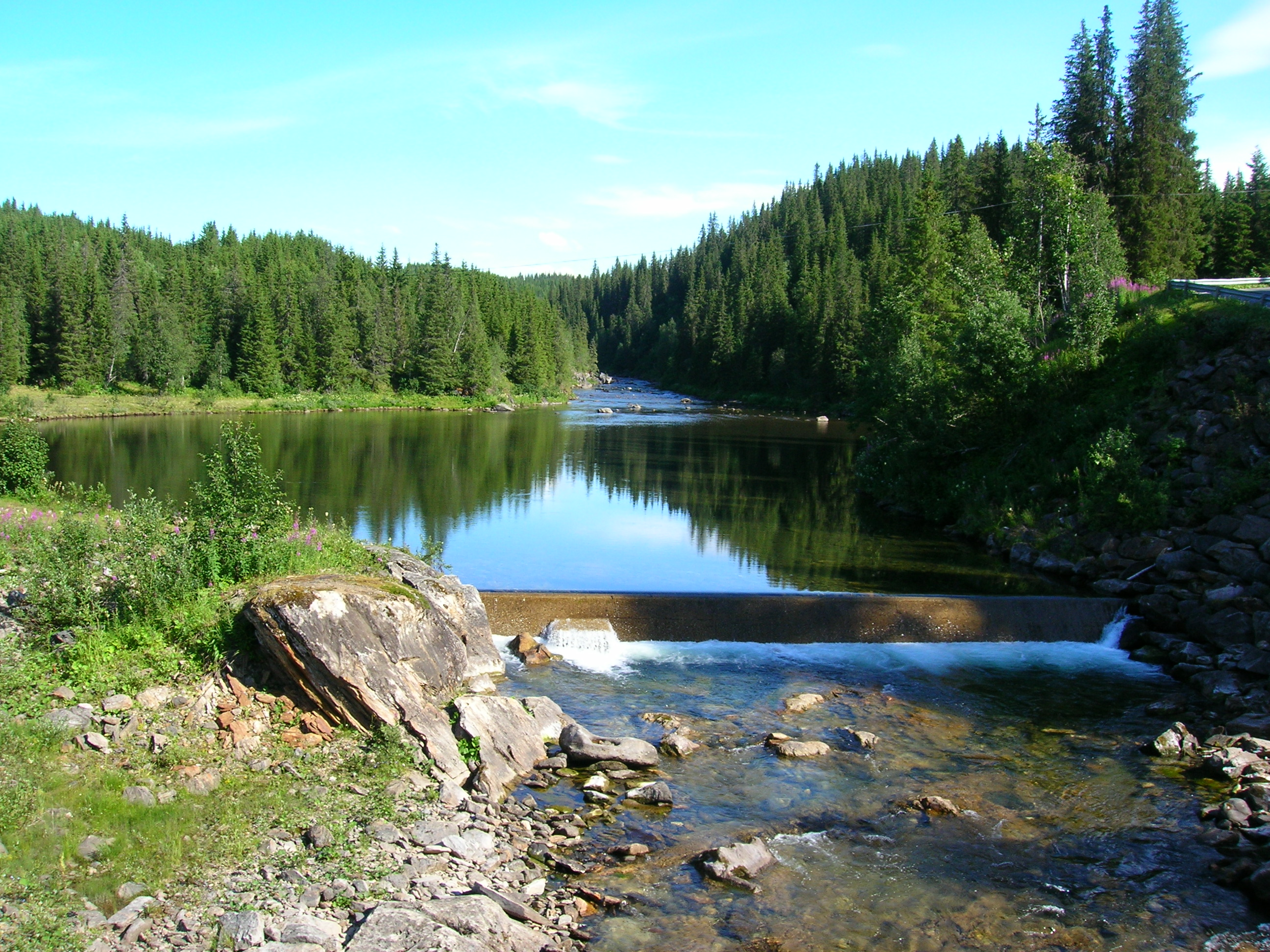 The River Plura passing through the valley Plurdalen in Rana municipality, county of Nordland, Norway, Photo 23 July, 2007 with a Nikon Coolpix 5600 5,1 Megapixel camera.